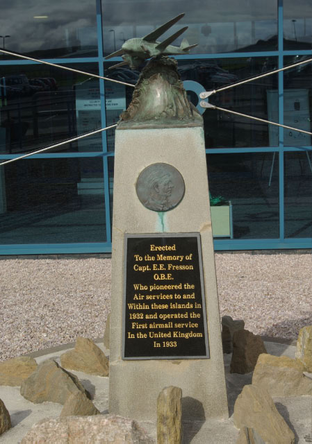 Fresson Monument, Kirkwall Airport This monument stands outside the terminal building at Kirkwall Airport. The plaque is self-explanatory.